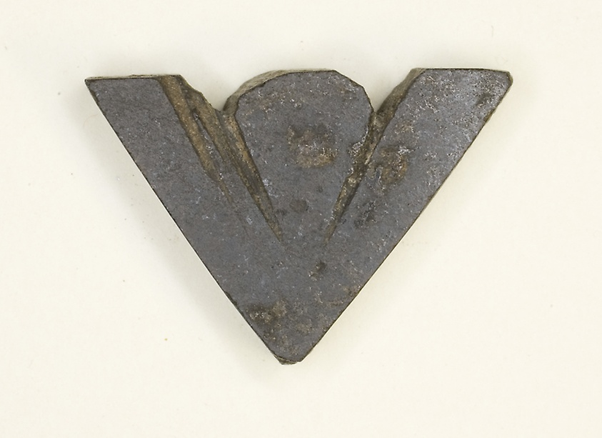 Ancient Egyptian amulet of a Plummet 664 BCE–332 BCE Hematite 1.6 × 2.2 × 0.6 cm (5/8 × 7/8 × 1/4 in.) Accession number: 1894.185